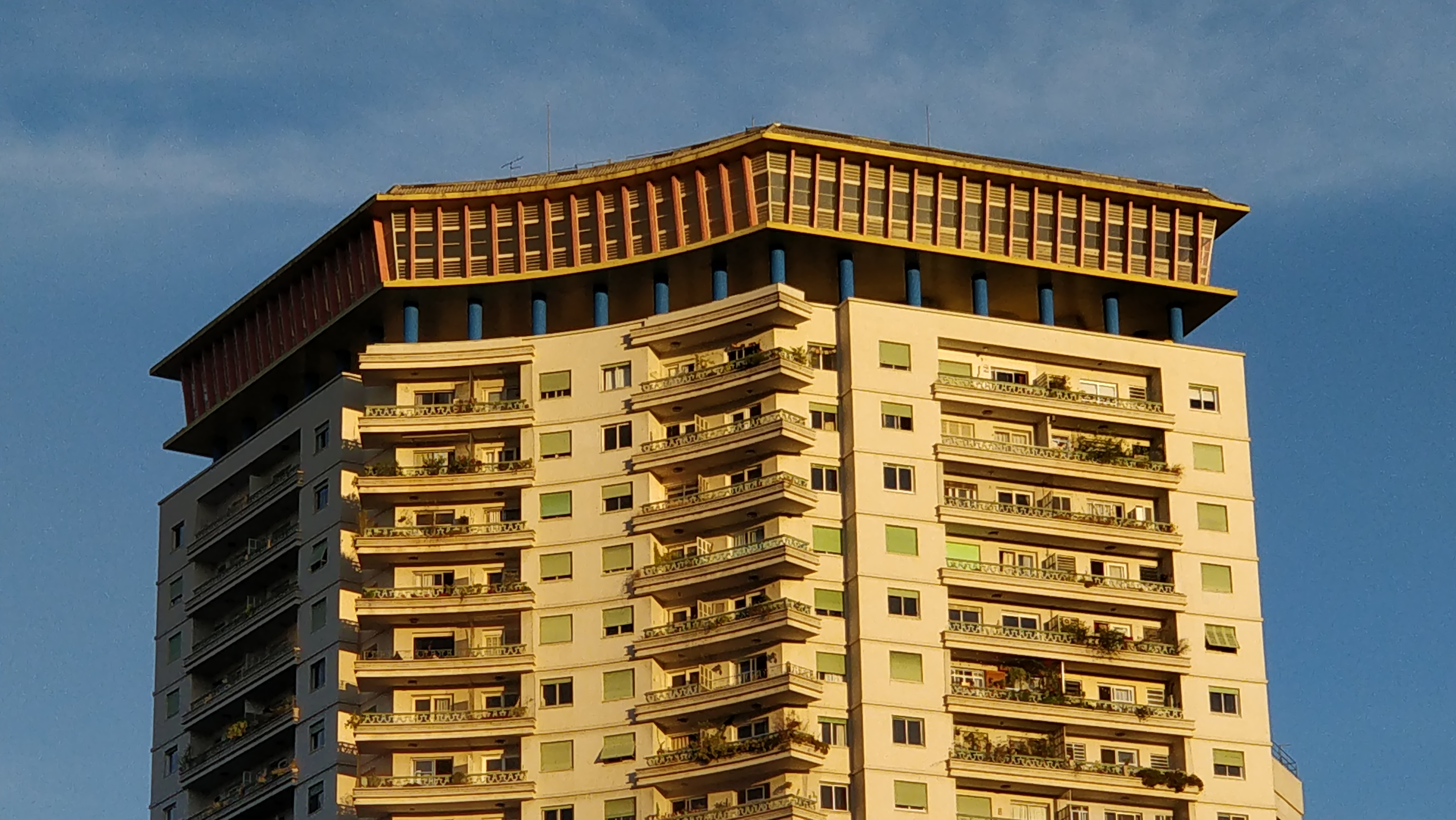 Edifício Viadutos in São Paulo